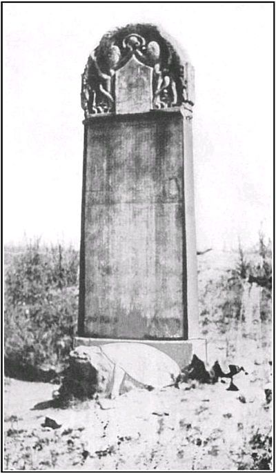 The Nestorian Stele of Xi'an as seen by Frits V. Holm in 1907, a short time before it was moved from this outdoor location to the Stele Forest (Beilin) museum. The brick pavilion that had formerly covered the stele had already disappeared, and thus one could see the entire stele and its stone tortoise.